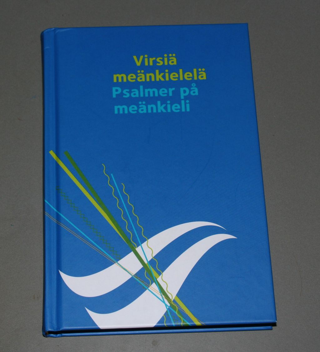 Hymnal in meänkieli-language for the Church of Sweden, publ 2018